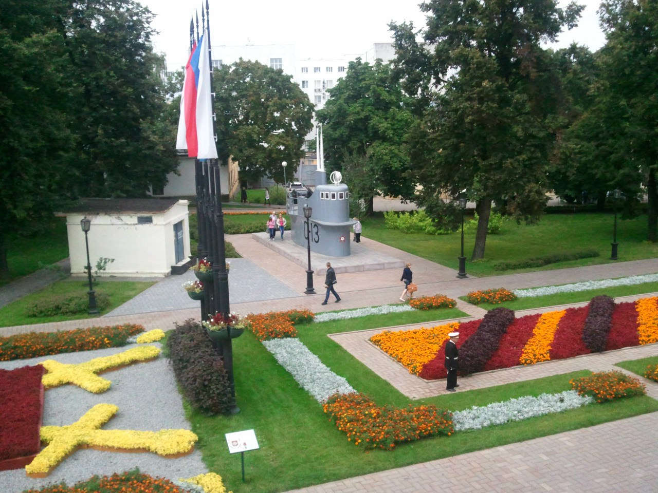 Replica of conning tower from S-13 submarine, situated in Nizhny Novgorod Kremlin.